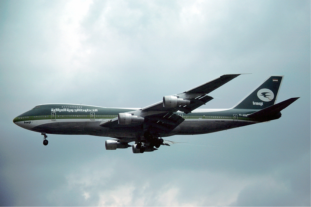 Iraqi Airways Boeing 747-200